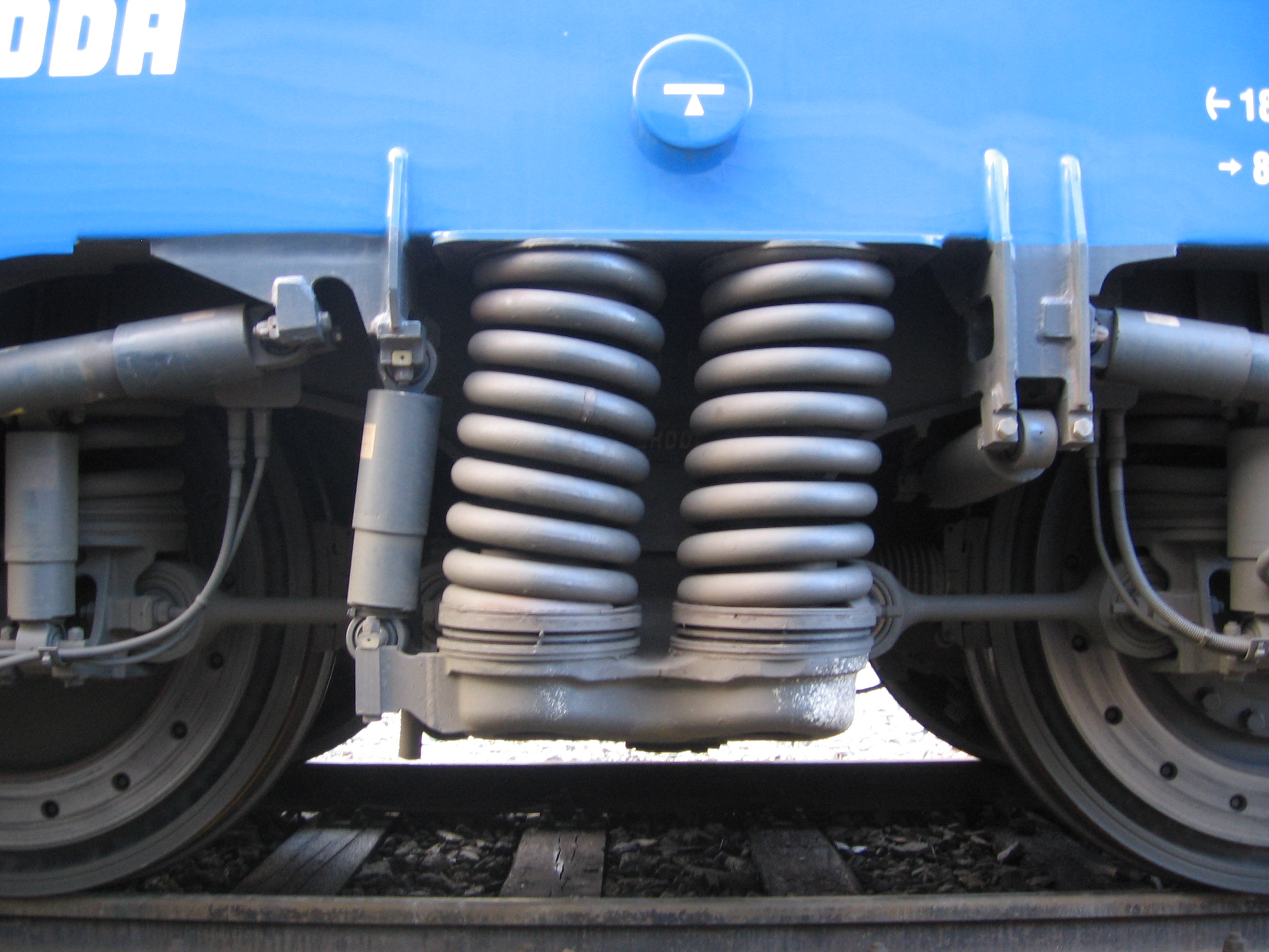 Flexicoil springs of 380.019 in a sharp curve